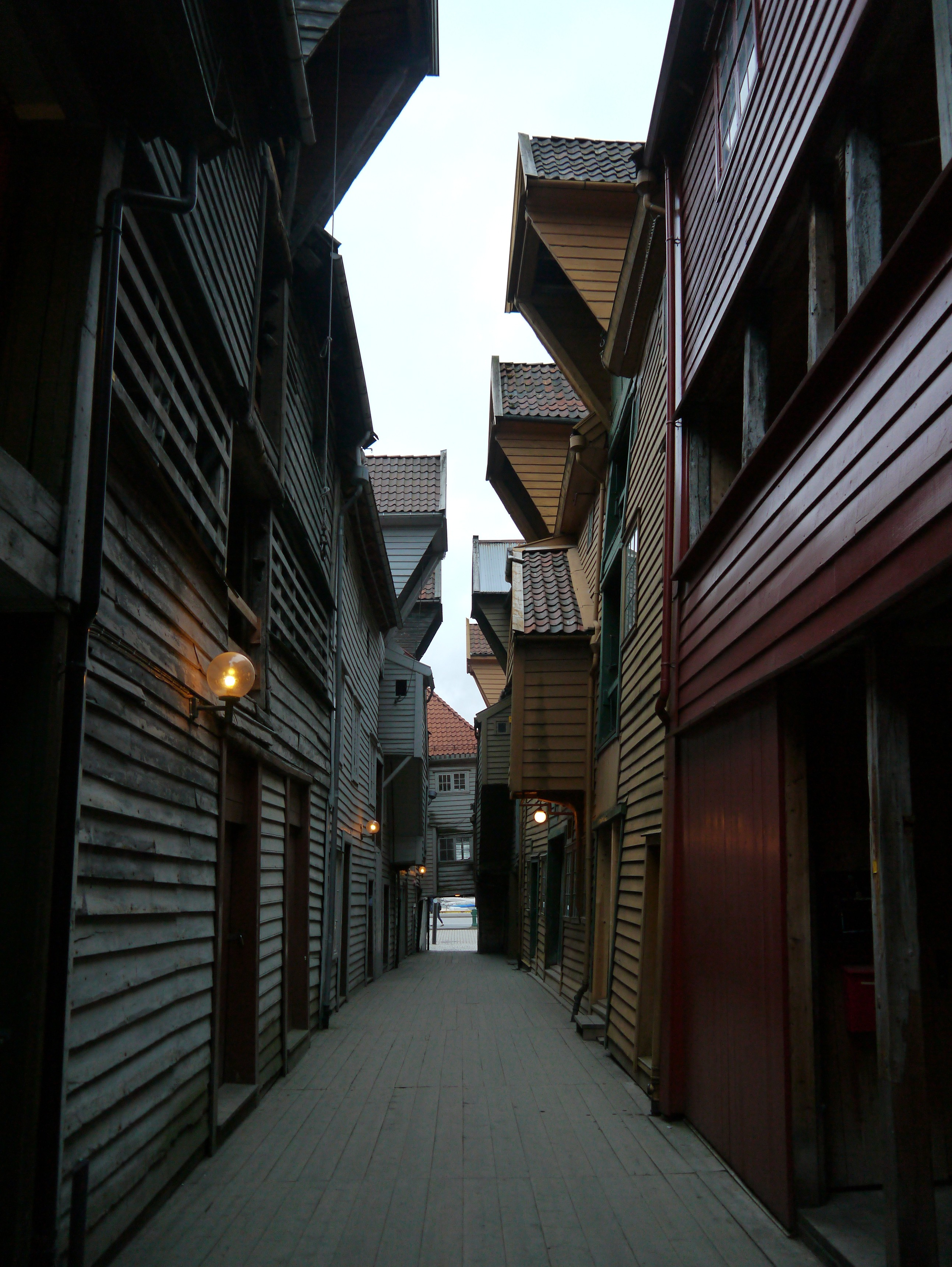 Bryggen Trading Quarter, Bergen, Hordaland County, Western Norway